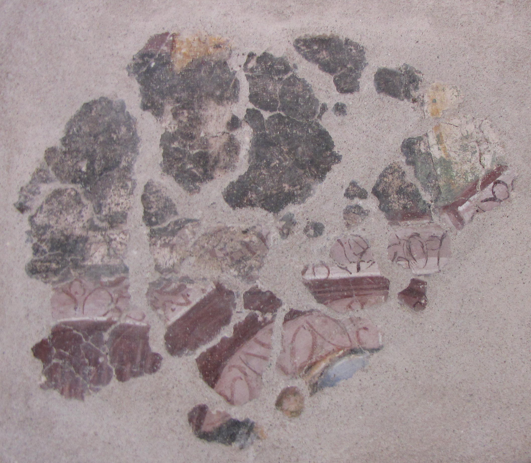 Parts of a wall painting in fiberglas